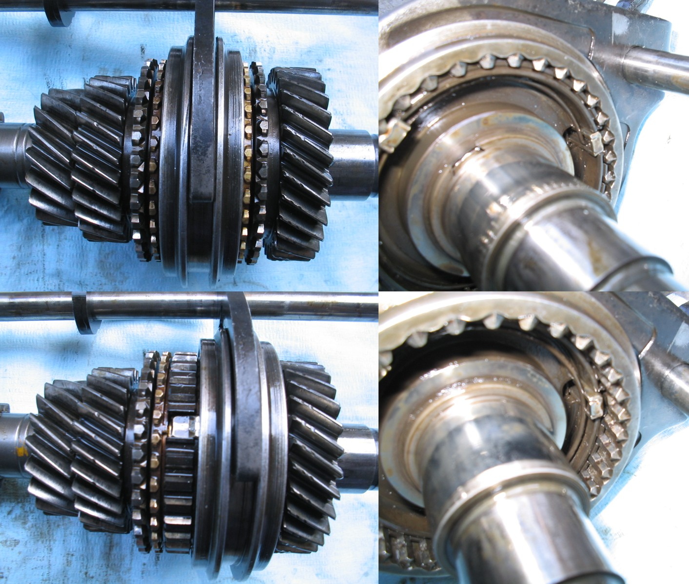 Gear selector of a Volkswagen Golf 1600 4th series, equipped with synchronizers